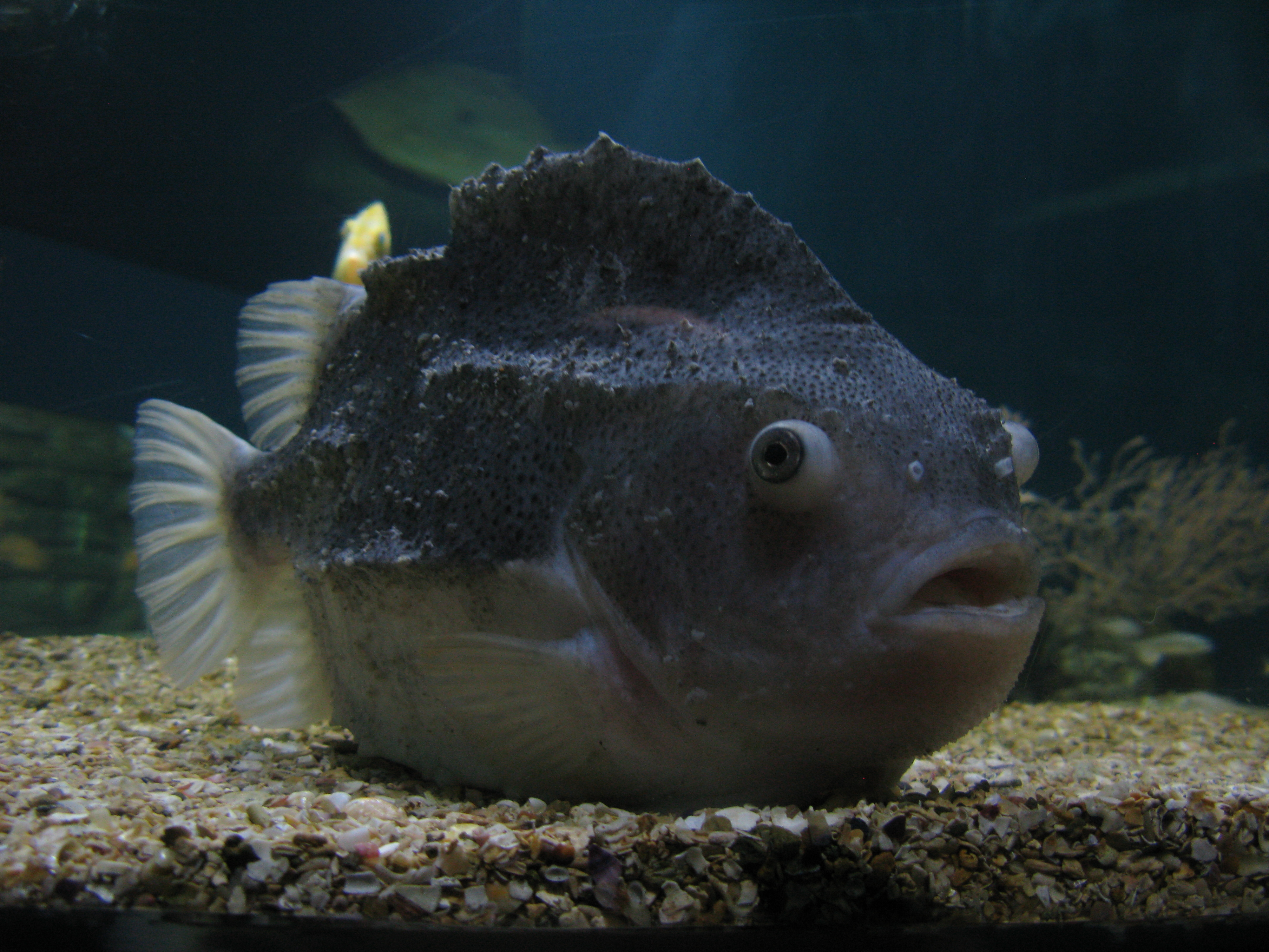 Lumpfish (Cyclopterus lumpus), at Dorée Tropical Aquarium, Paris.